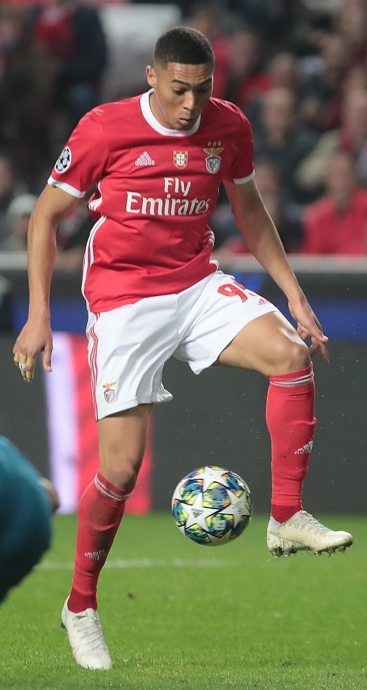 Benfica-Zenit UEFA Champions League 2019/20 (10/12/2019)